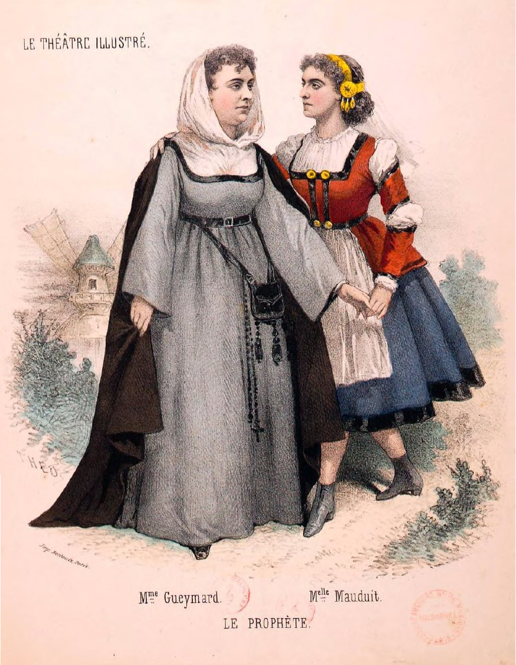 Pauline Guéymard-Lauters in the role of Fidès and Emma Mauduit (1845–19..) in the role of Berthe in Meyerbeer's opera Le prophète at the Opéra in Paris in 1866